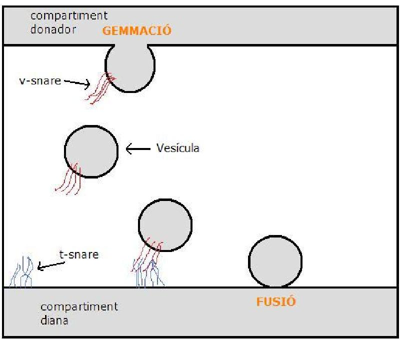 SNARE proteins in vesicle fusion